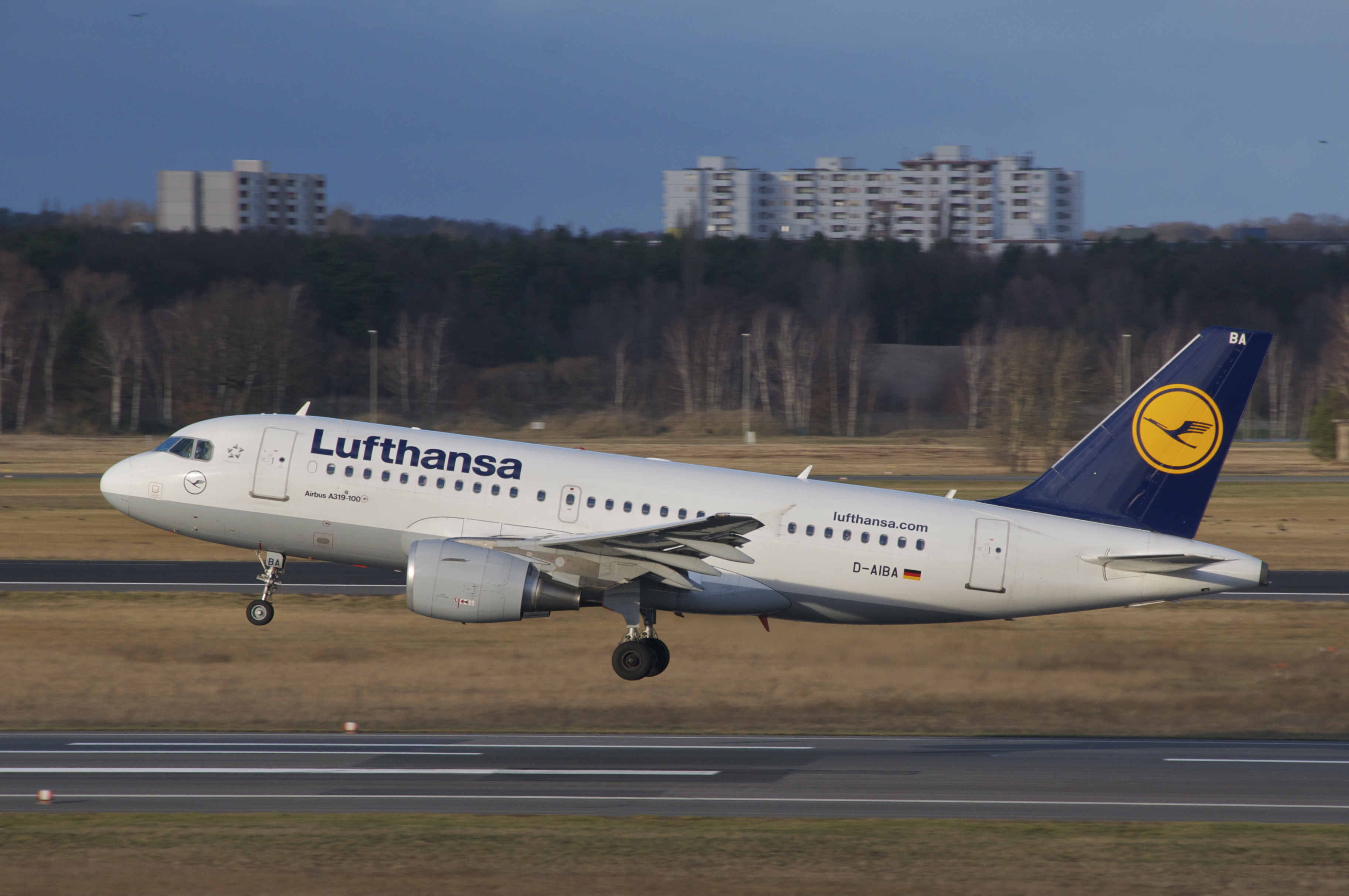 Lufthansa Airbus A319-112; D-AIBA@TXL;30.12.2012/684cx